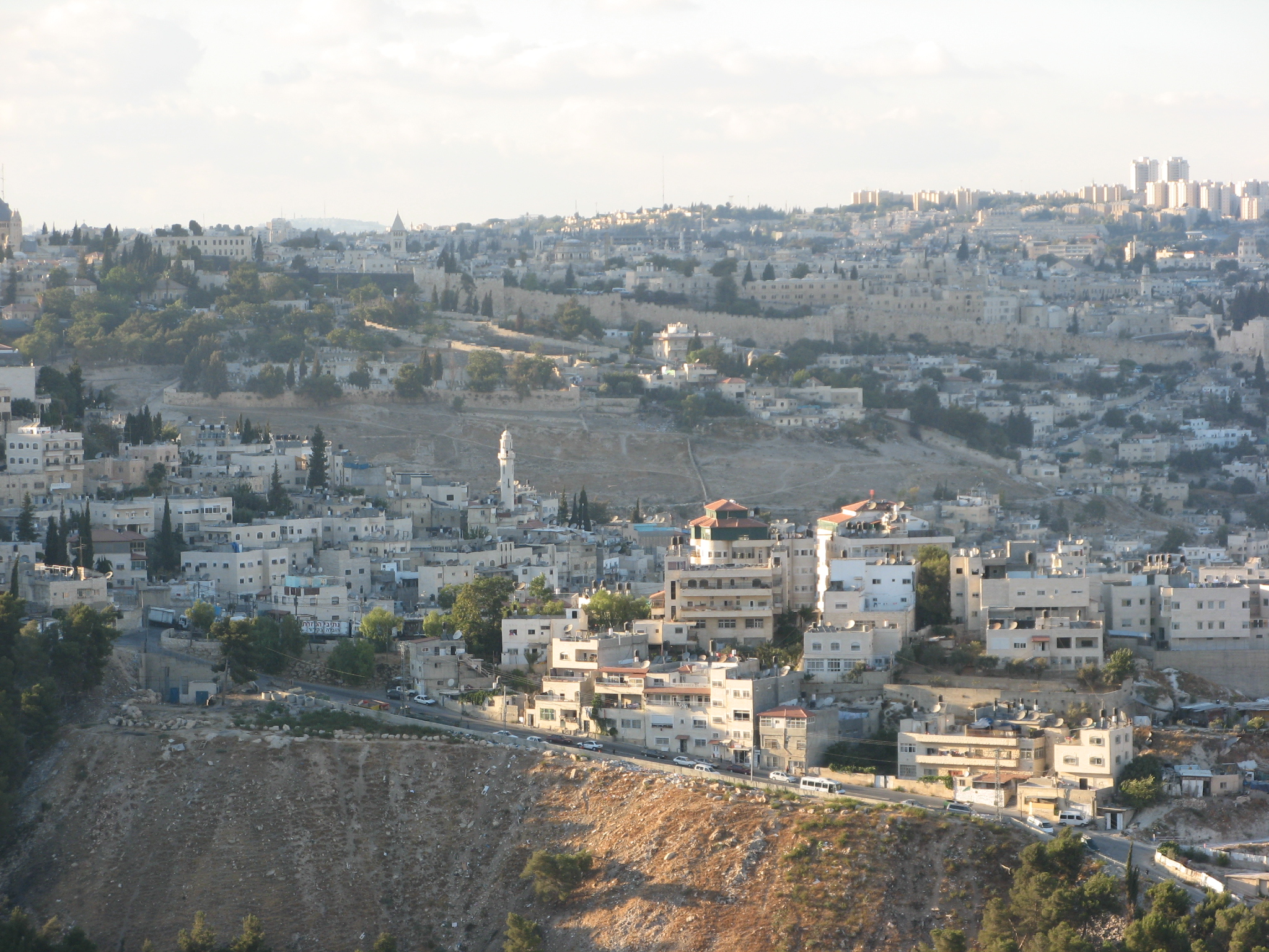 Abu Tur from the Haz broadwalk